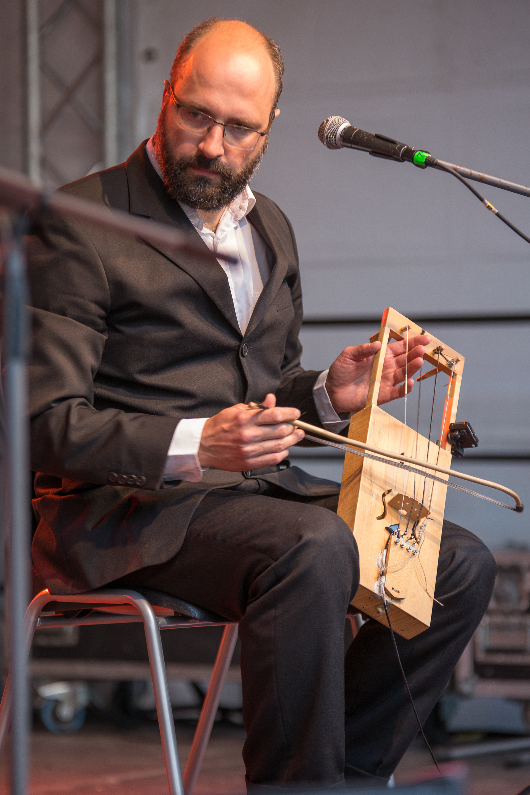 Puuluup playing at the Rudolstadt-Festival 2018.